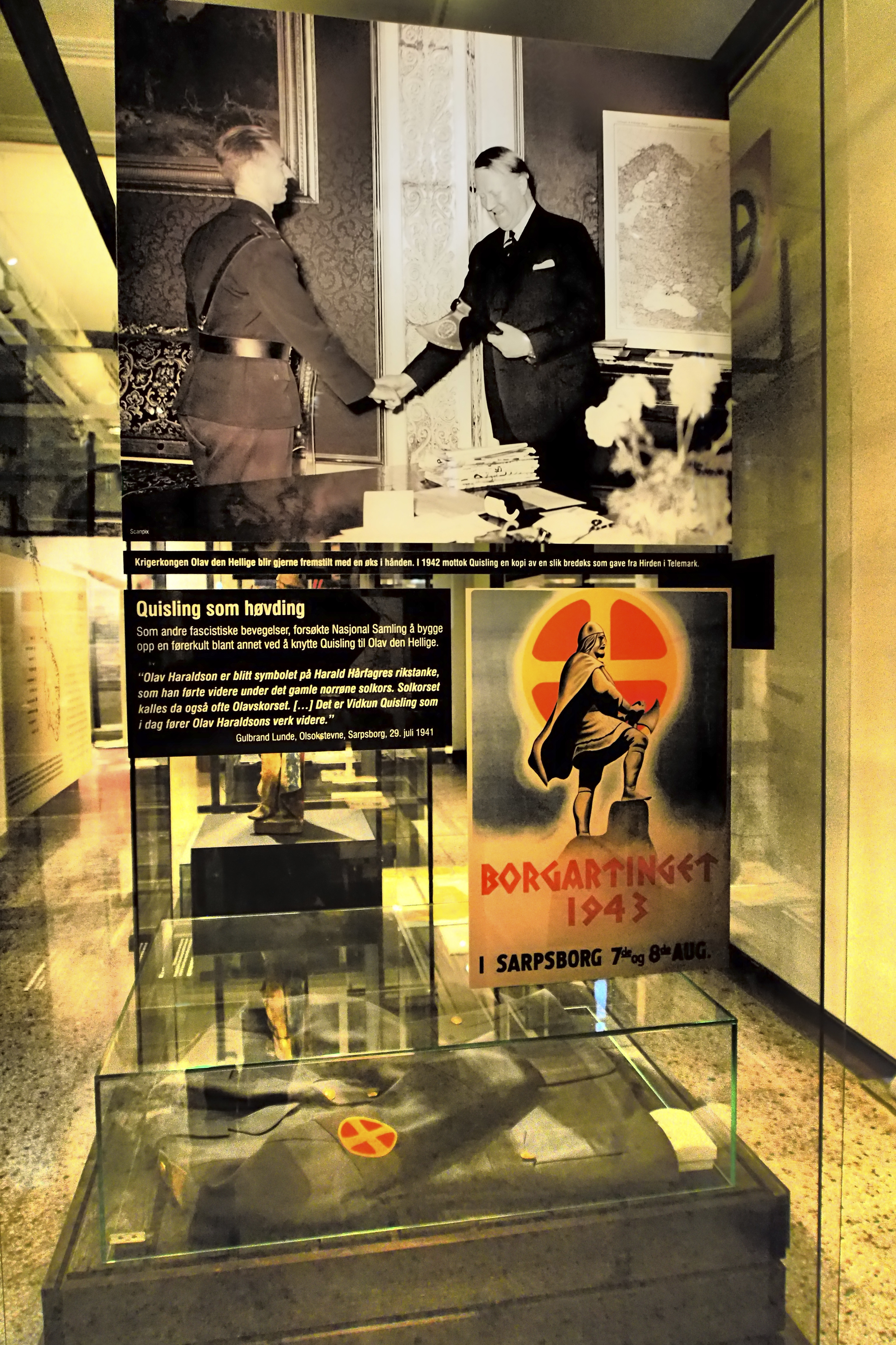 Norwegian World War 2 Nazi propaganda poster for Nasjonal Samling etc. From the exhibition "JA VI ELSKER FRIHET / MINUS FEM" at Museum of Cultural History, Oslo, Norway May 16th – Dec 31st 2014. Exhibition curators: Lill-Ann Chepstow-Lusty and Terje Emberland from Center for Studies of the Holocaust and Religious Minorities. Photo by Lill-Ann Chepstow-Lusty. OLYMPUS DIGITAL CAMERA